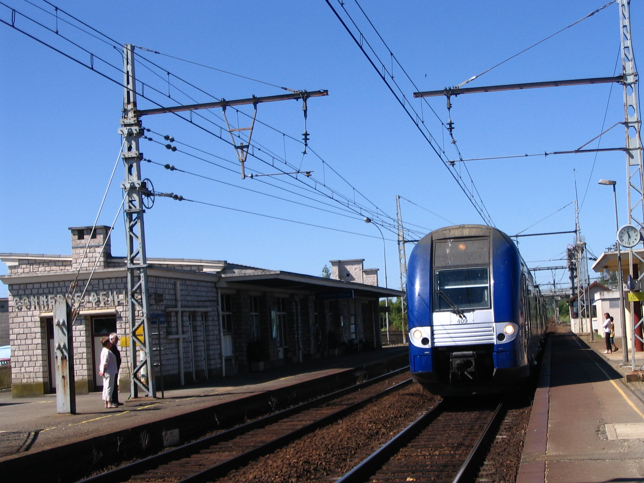 The train station of Connerré-Beillé, Sarthe, France.